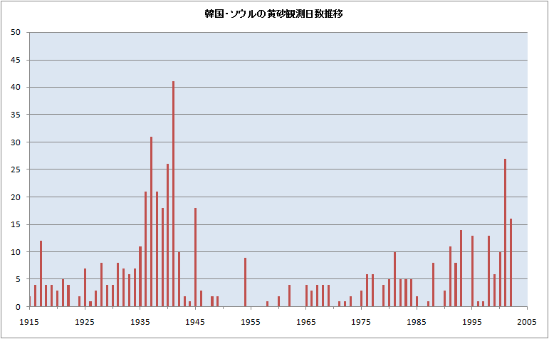 Asian dust observed days in Seoul(1915～2002）